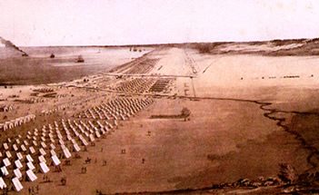 Taylor's Camp Along Corpus Christi